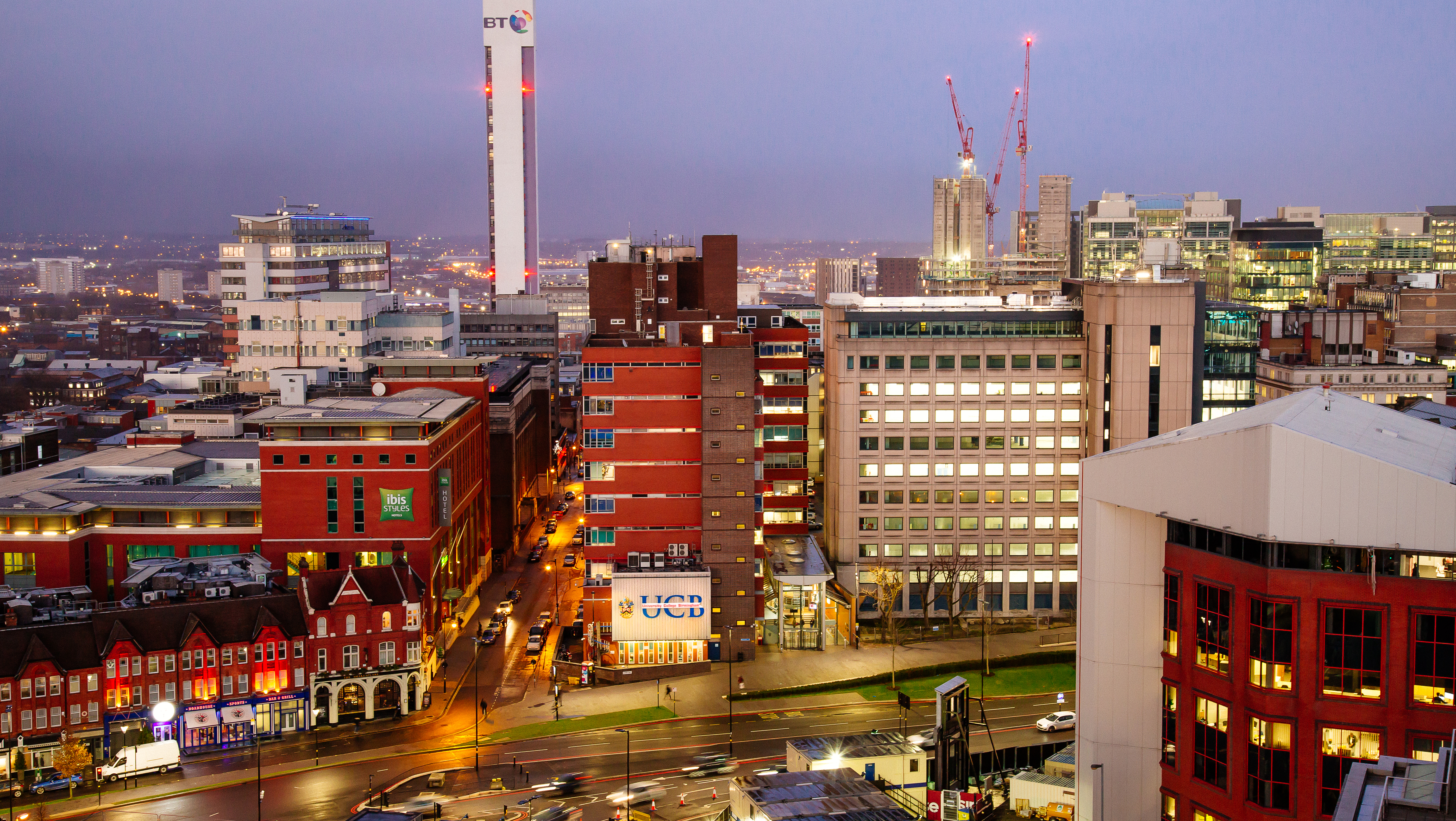 Summer Row Campus